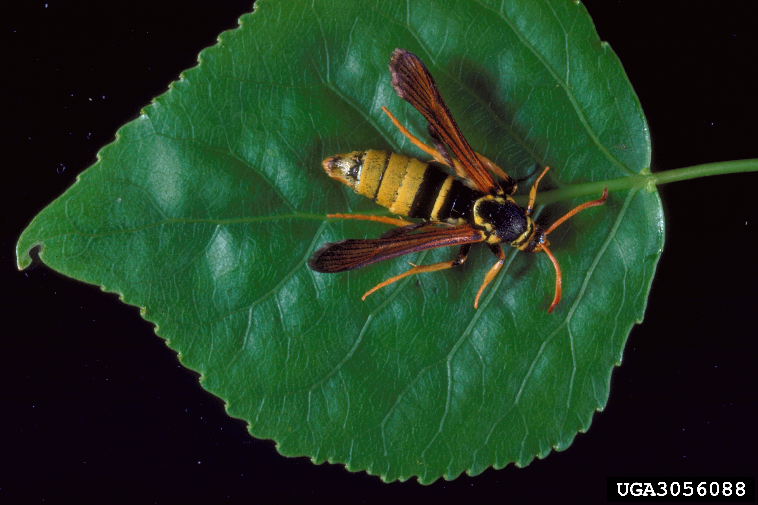 Paranthrene robiniae